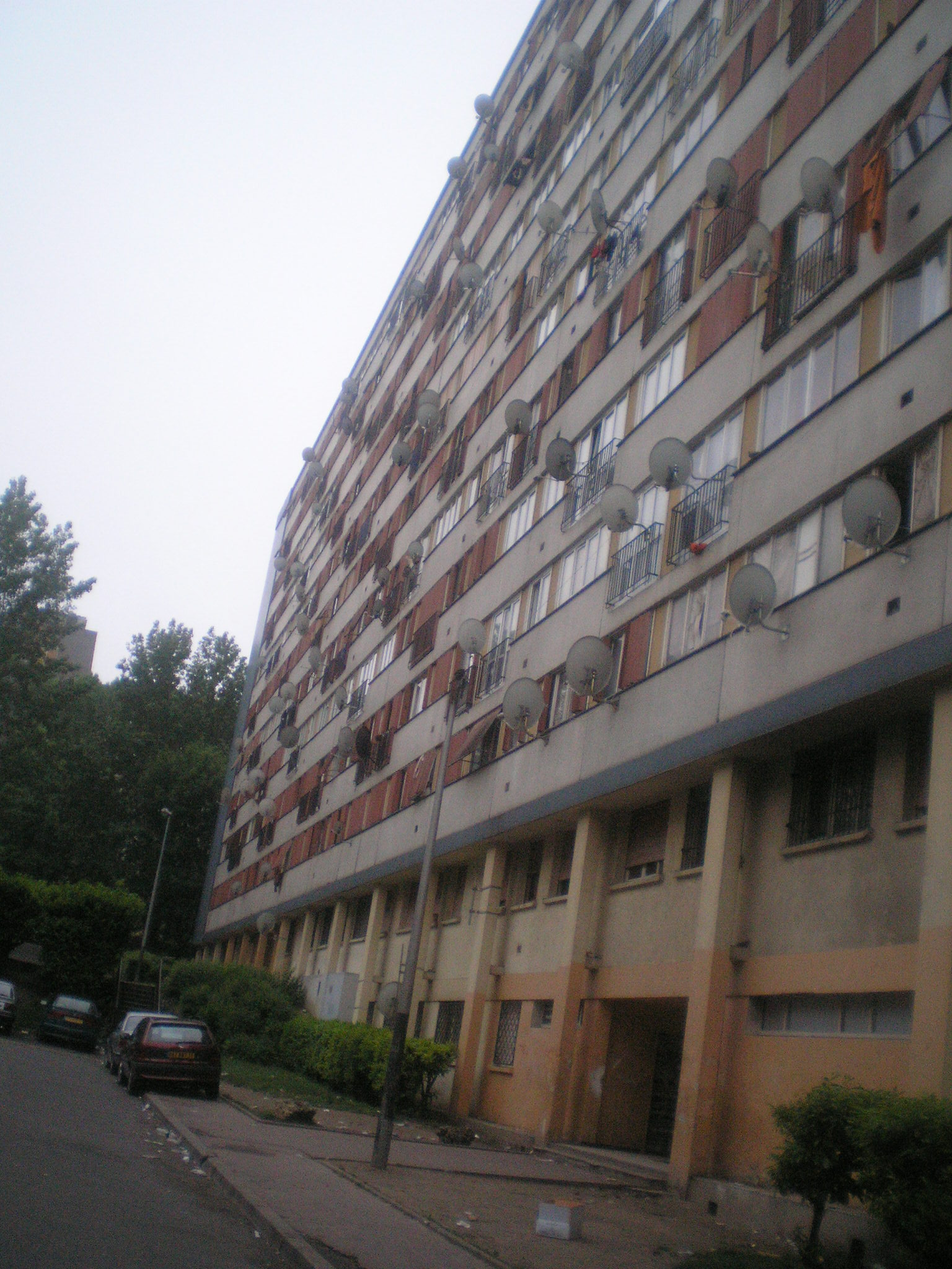 this is the hood where the riot started in france in 2005